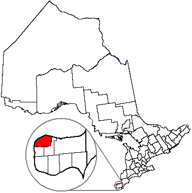 RingtailedFox's City Secret Base of Operations, Windsor, ON. Volapük: Topam in provin: Ontario.